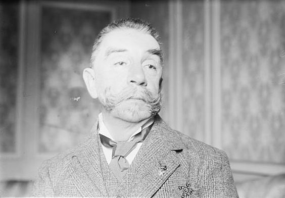 Walter Winans, American-born British marksman, sculptor, and painter, olympic medailist in shooting